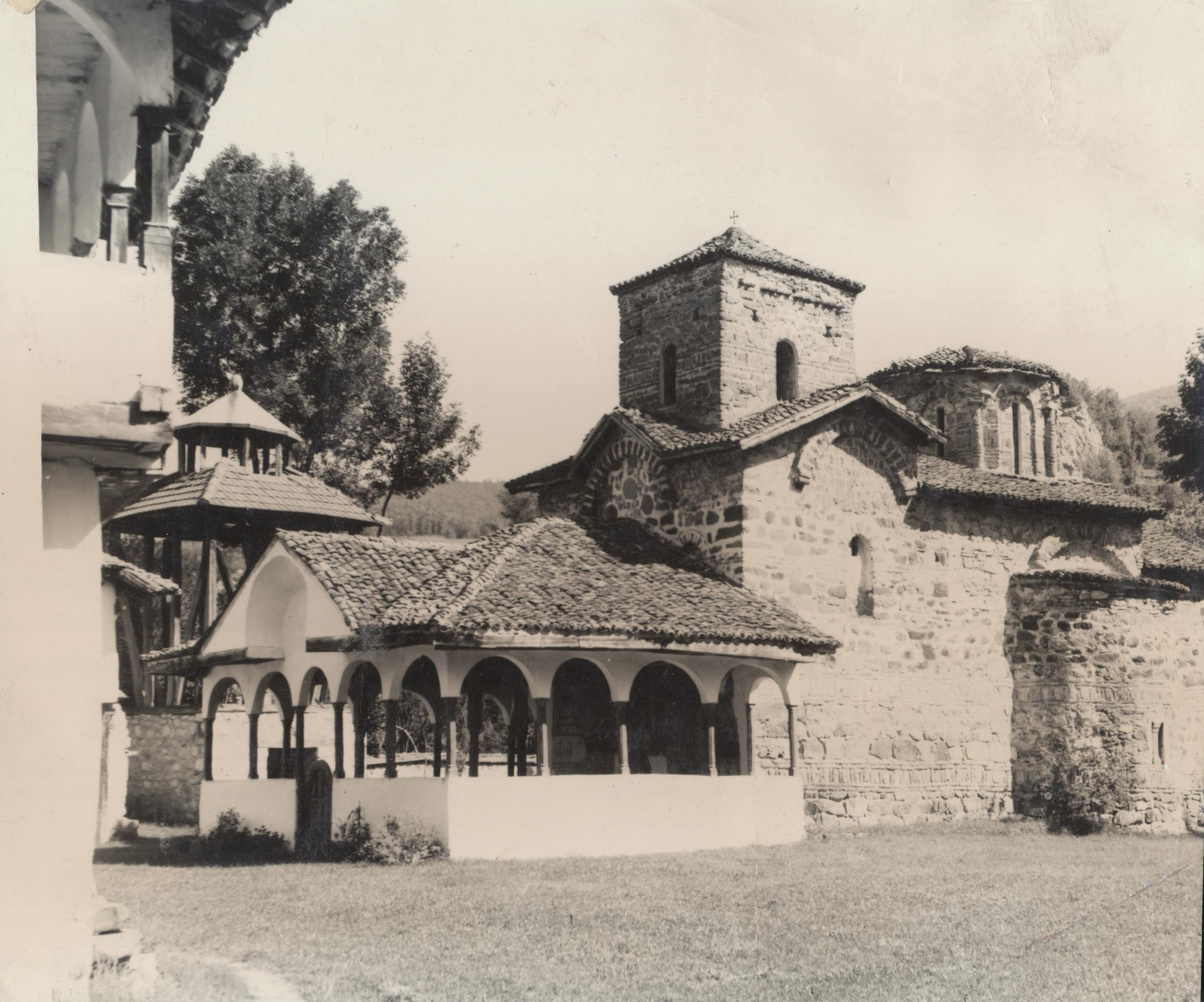 Monastery Poganovo 1945